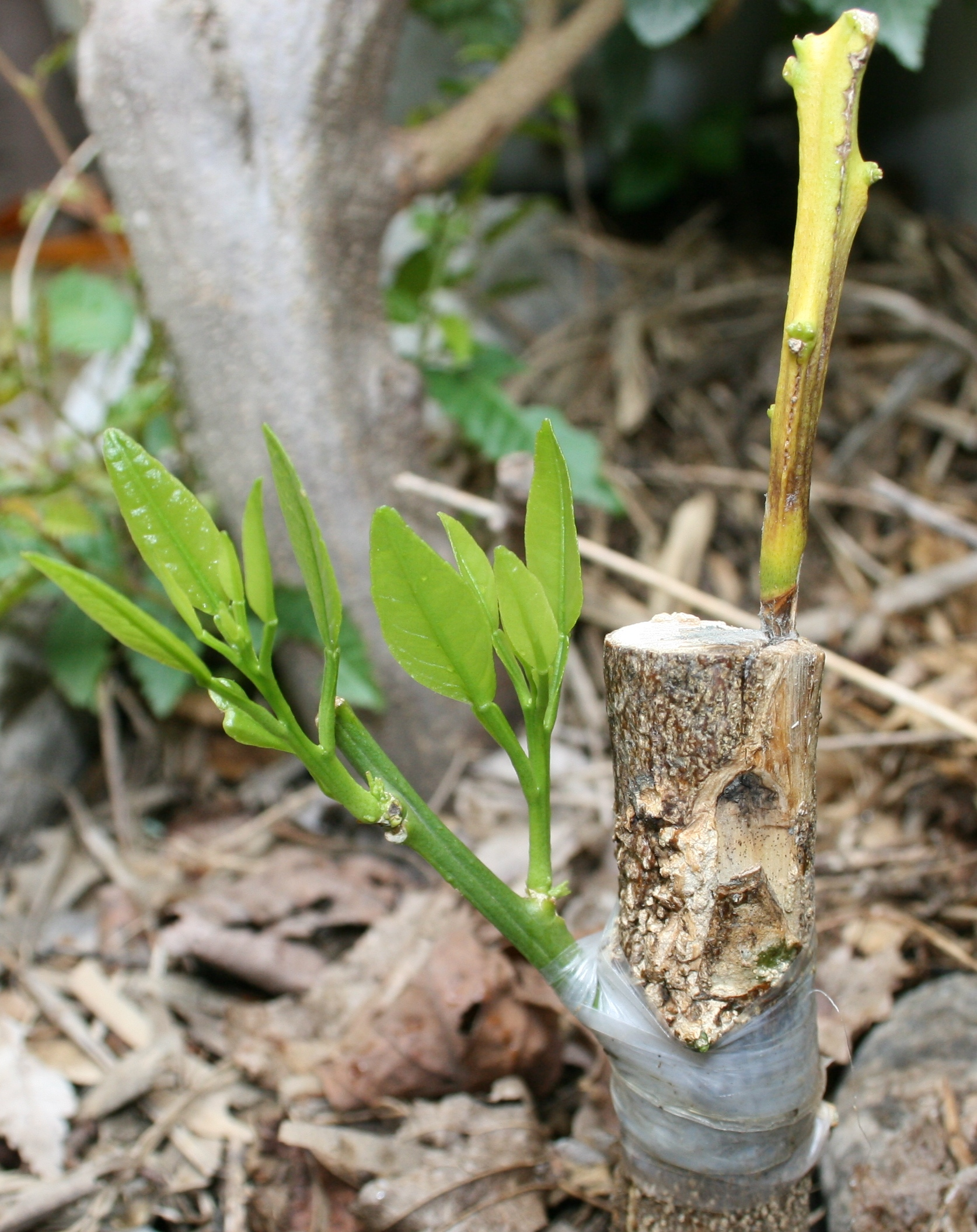 Grafting of Dekopon